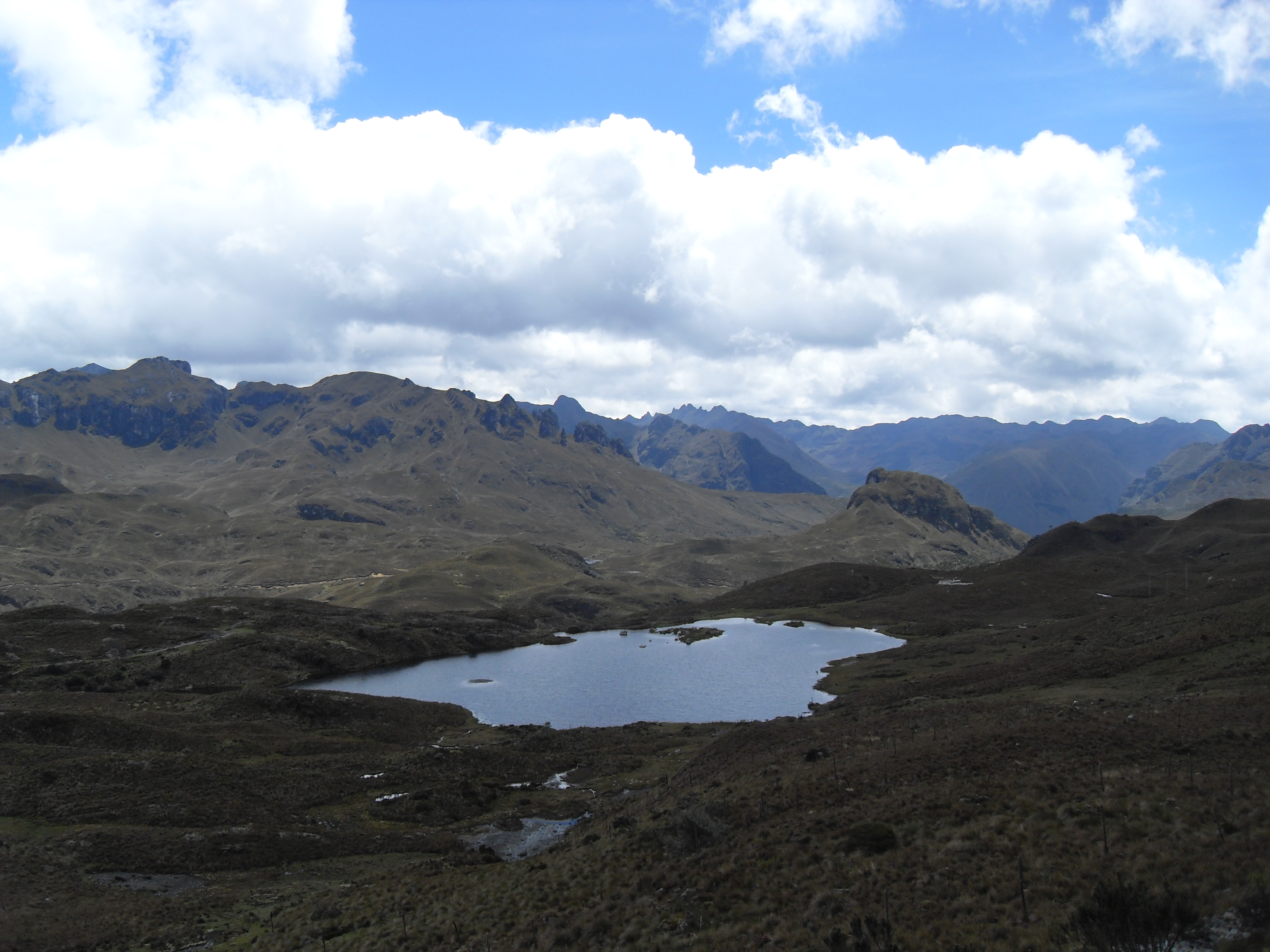 View to the NE close to Tres Croces